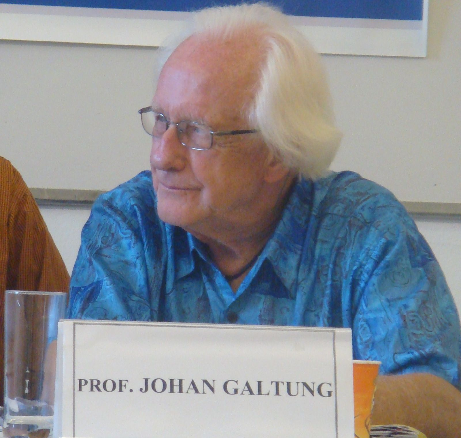 at a seminar at Netanya Academic College (Israel) on Peace Journalism and media coverage of war. Johan Galtung is a pioneer of peace and conflict research - see - a man to be admired